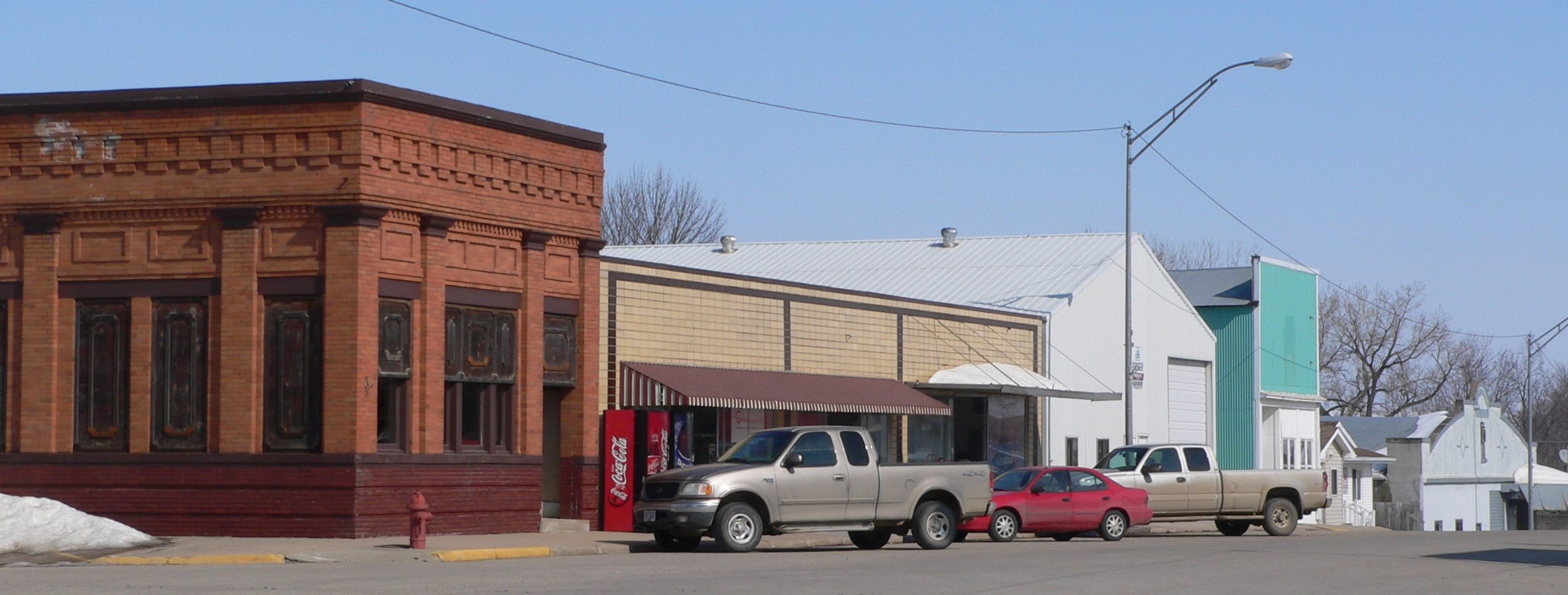 Downtown Allen, Nebraska: north side of 2nd Street, facing east from Clark Street.